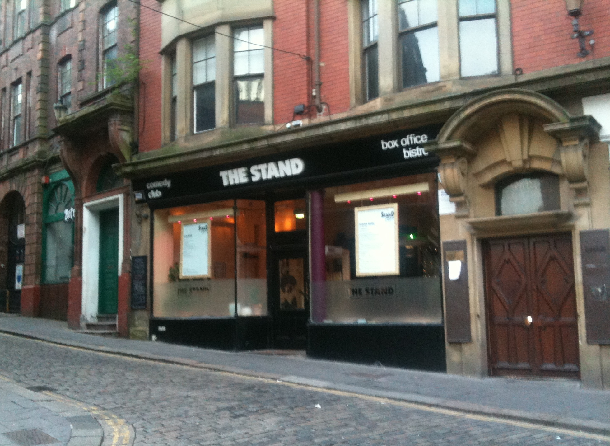 The Stand comedy club and bistro, High Bridge, Newcastle upon Tyne. Photographed May 2013.